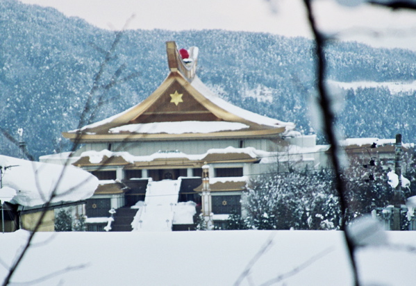 Summary Photo of the Sukyo Mahikari headquarters outside of Takayama, Gifu, Japan. Photo by Michael Stern, December 2005